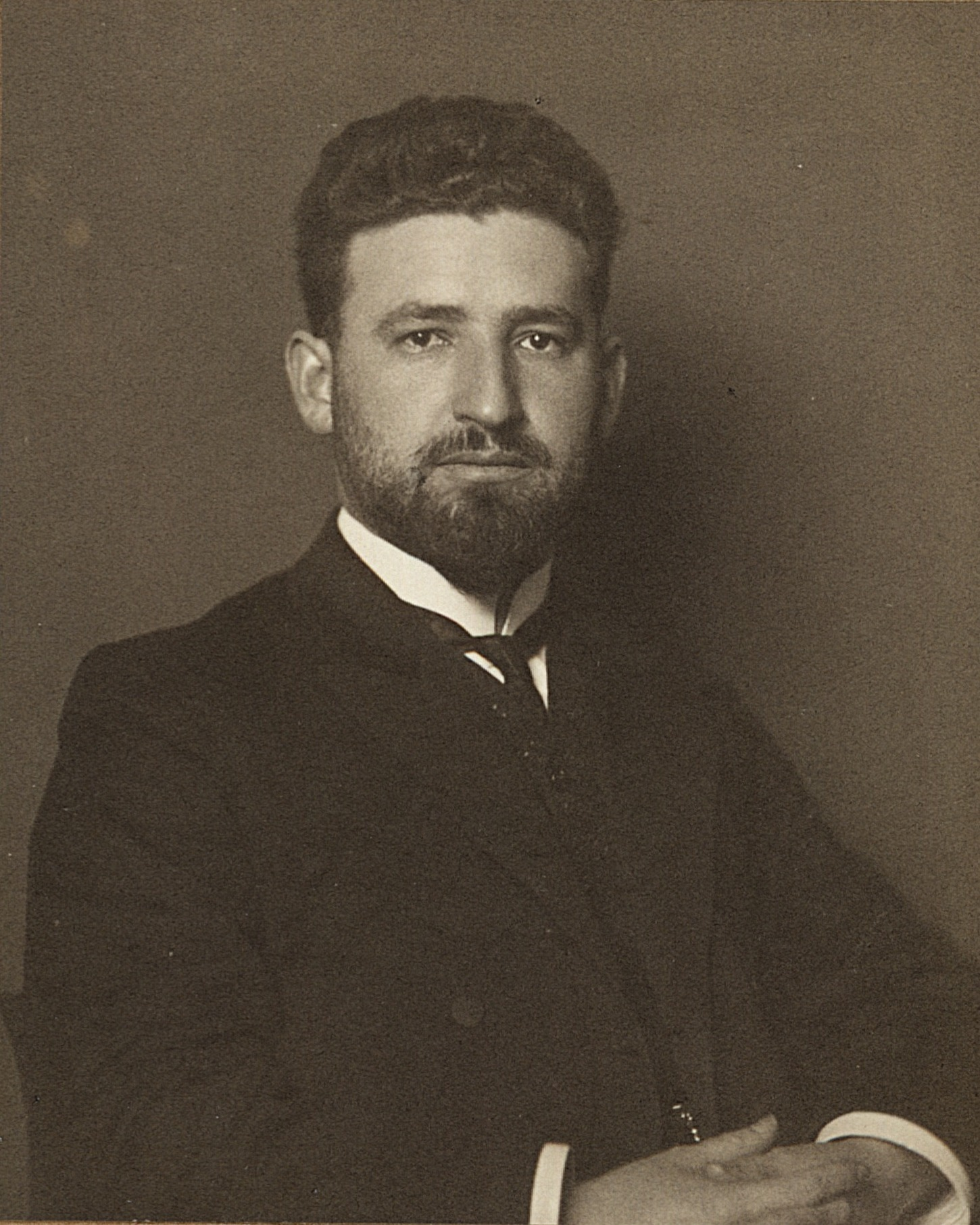 adfadsf